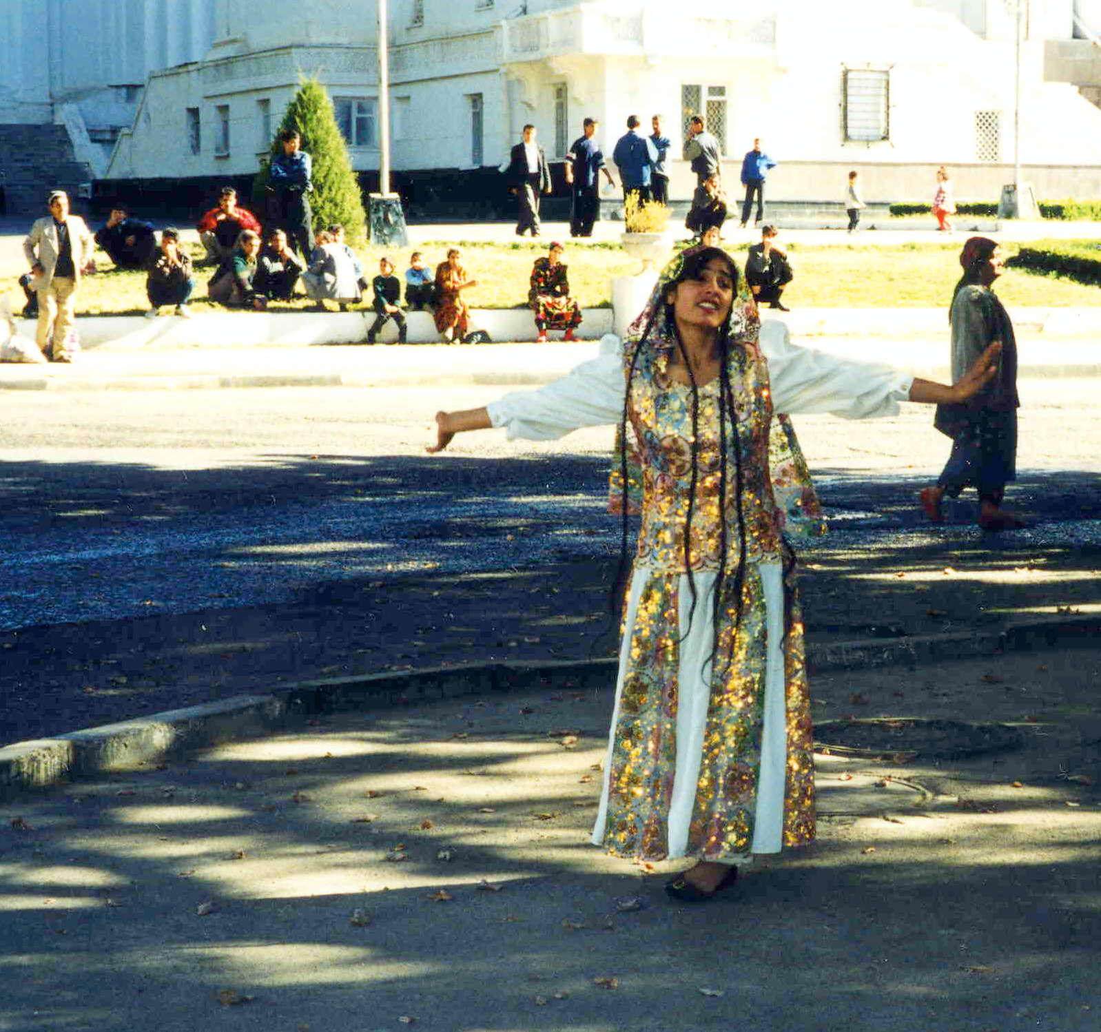 Dancer belonging to one of Tajikistan's peoples entertaining passers-by with some of her traditional dances.